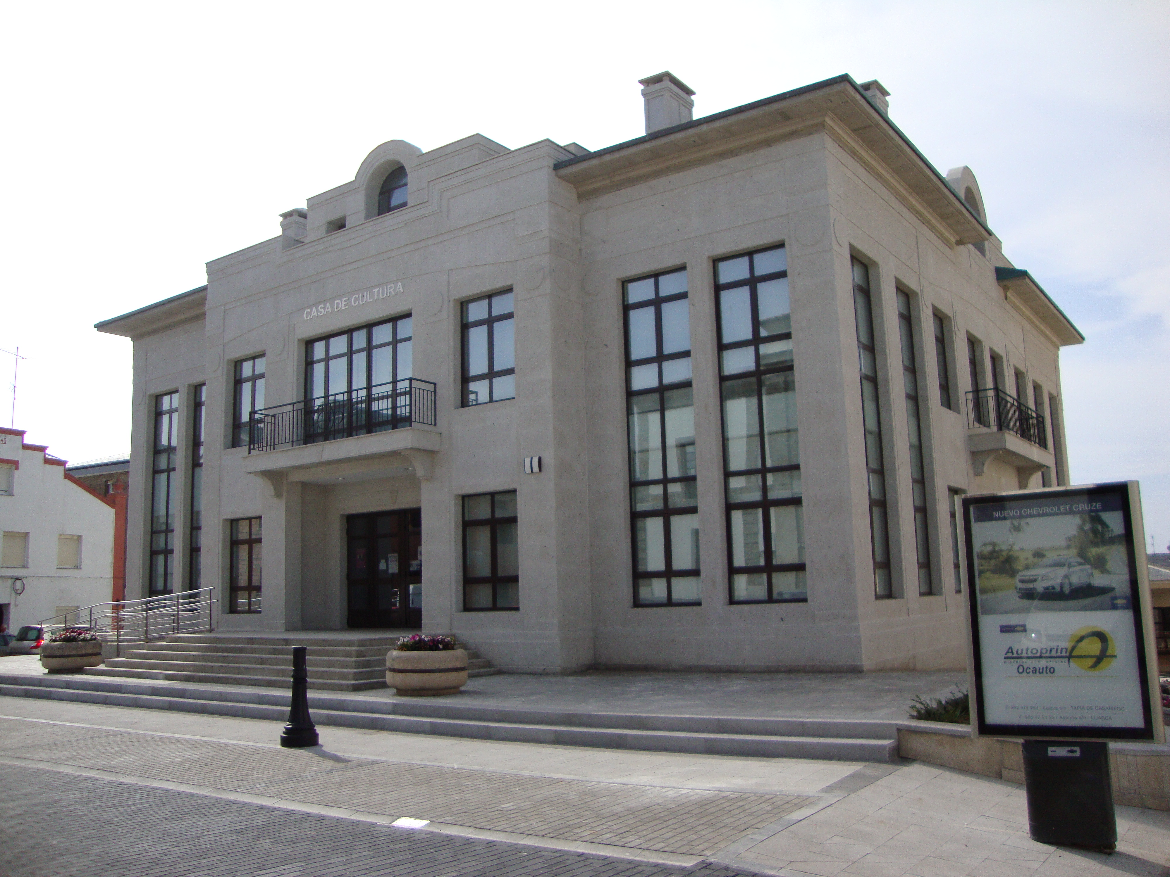 Museum in Tapia de Casariego